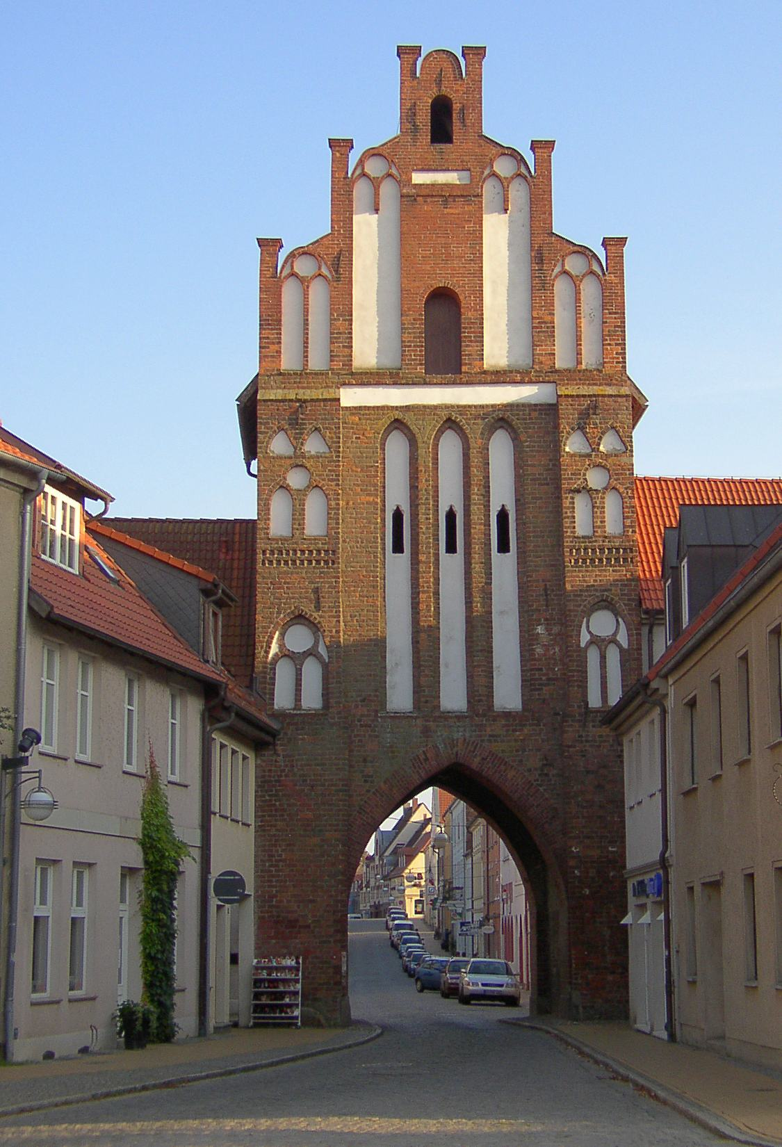 Rostock gate in Teterow in Mecklenburg-Western Pomerania, Germany